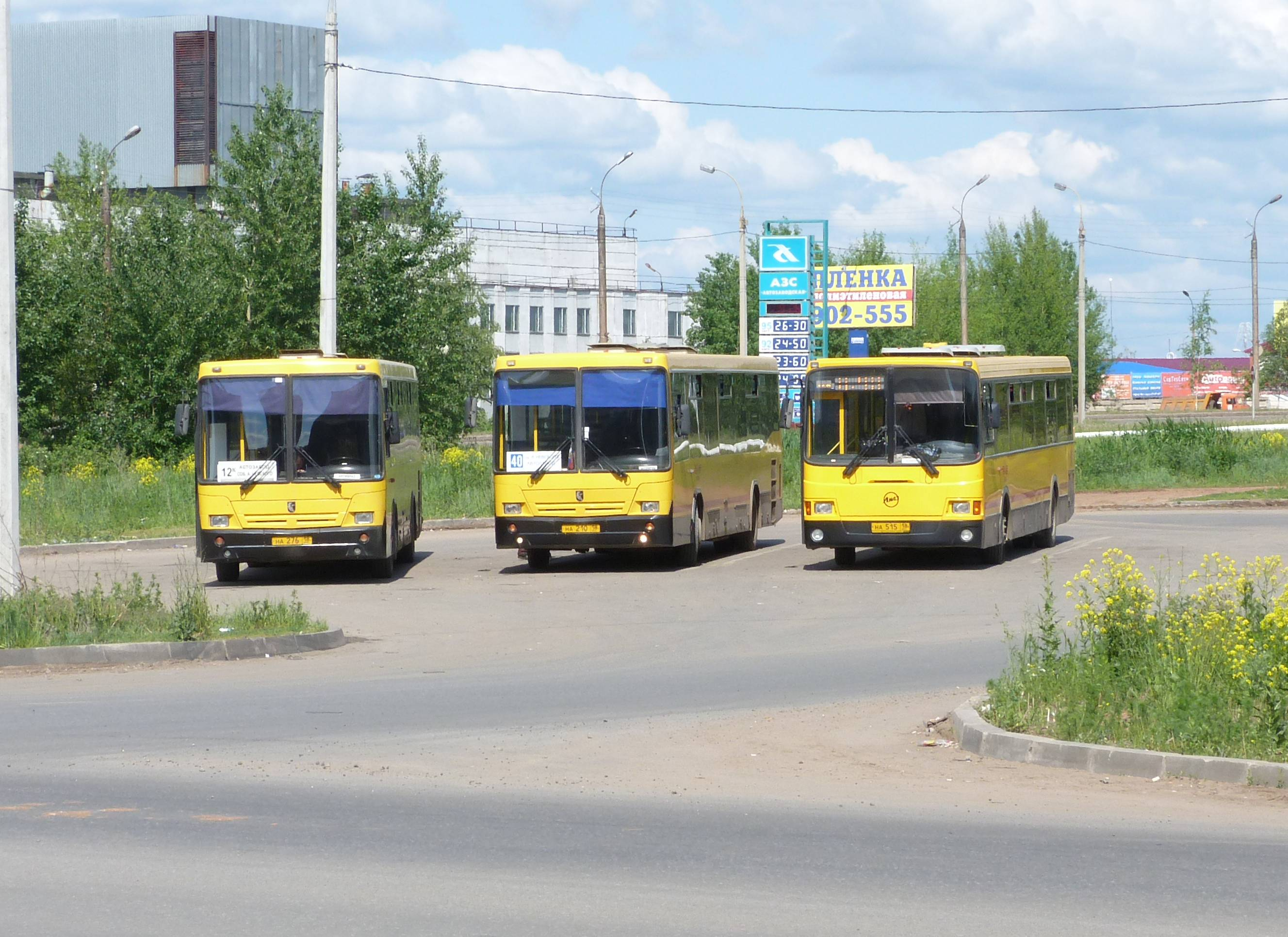 3 buses on the terminus in Izhevsk